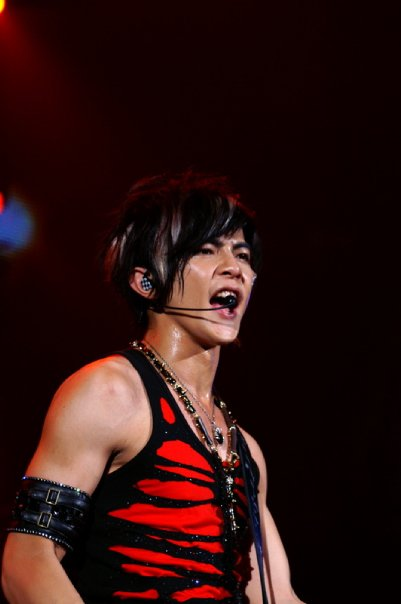 Jiro Wang, taken in fahrenheit's concert in hong kong